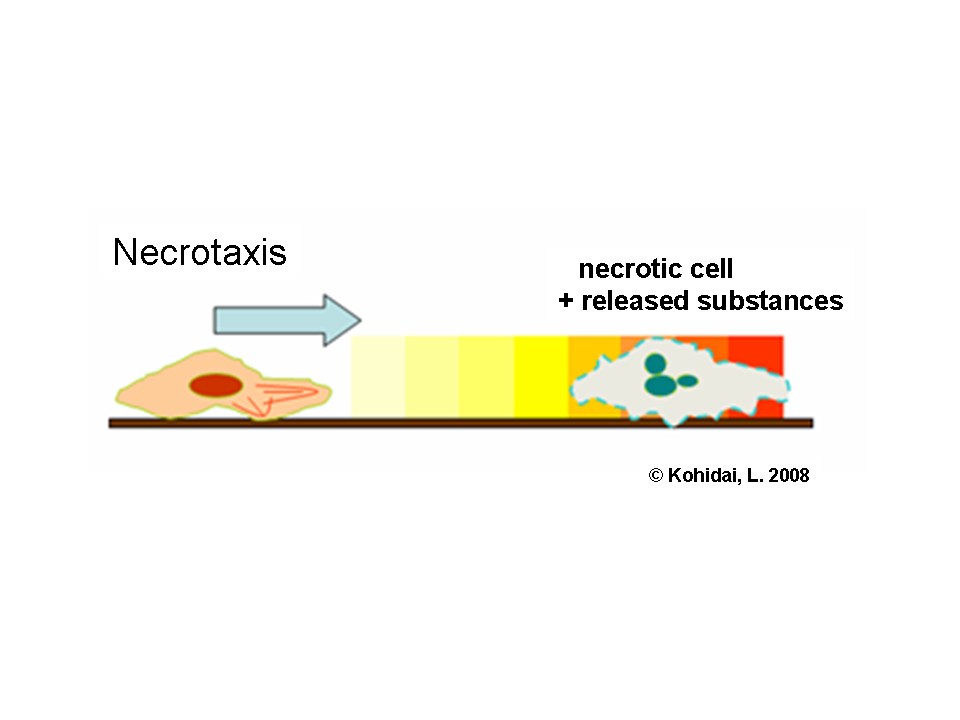 Necrotaxis